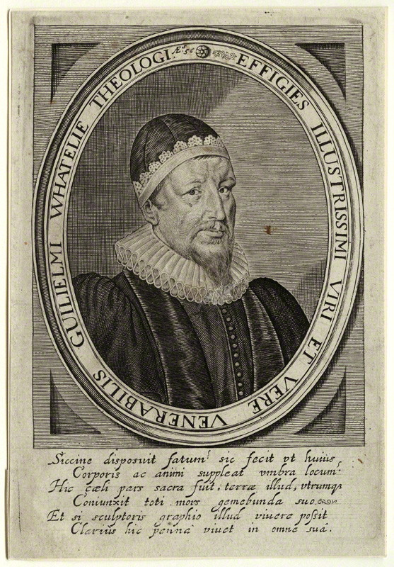 Portrait of William Whately (1583–1639), English Puritan priest.